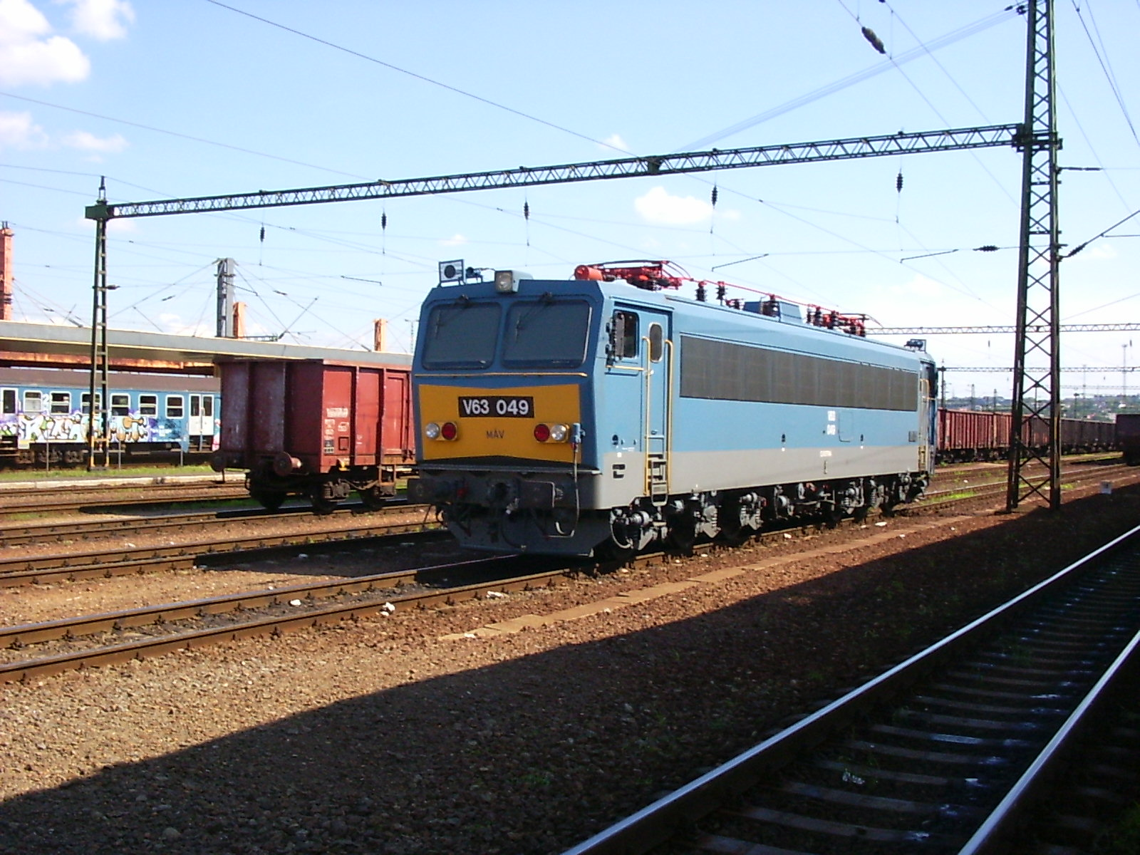 Class V63 electric locomotive of the MÁV in Kelenföld